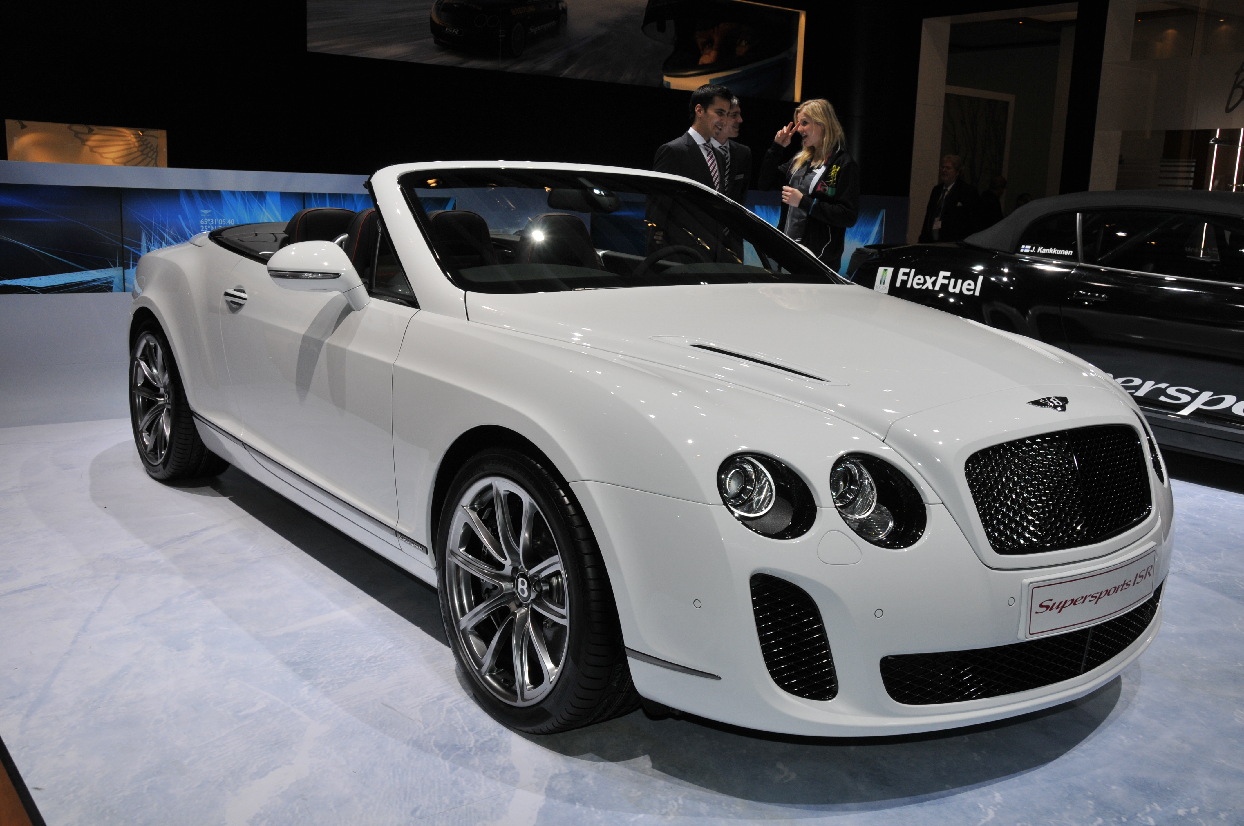 The Bentley Supersports ISR at the Geneva Motor Show 2011. For more info on this model, check this page